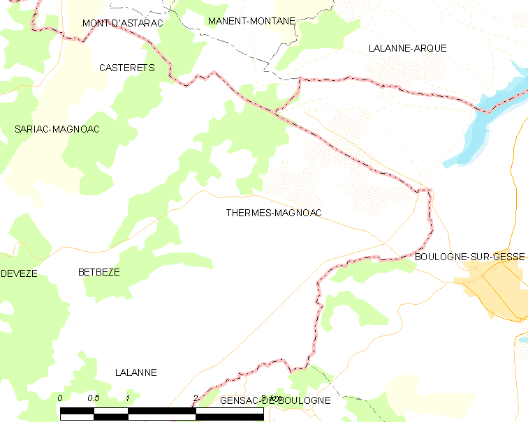 Map of French municipality